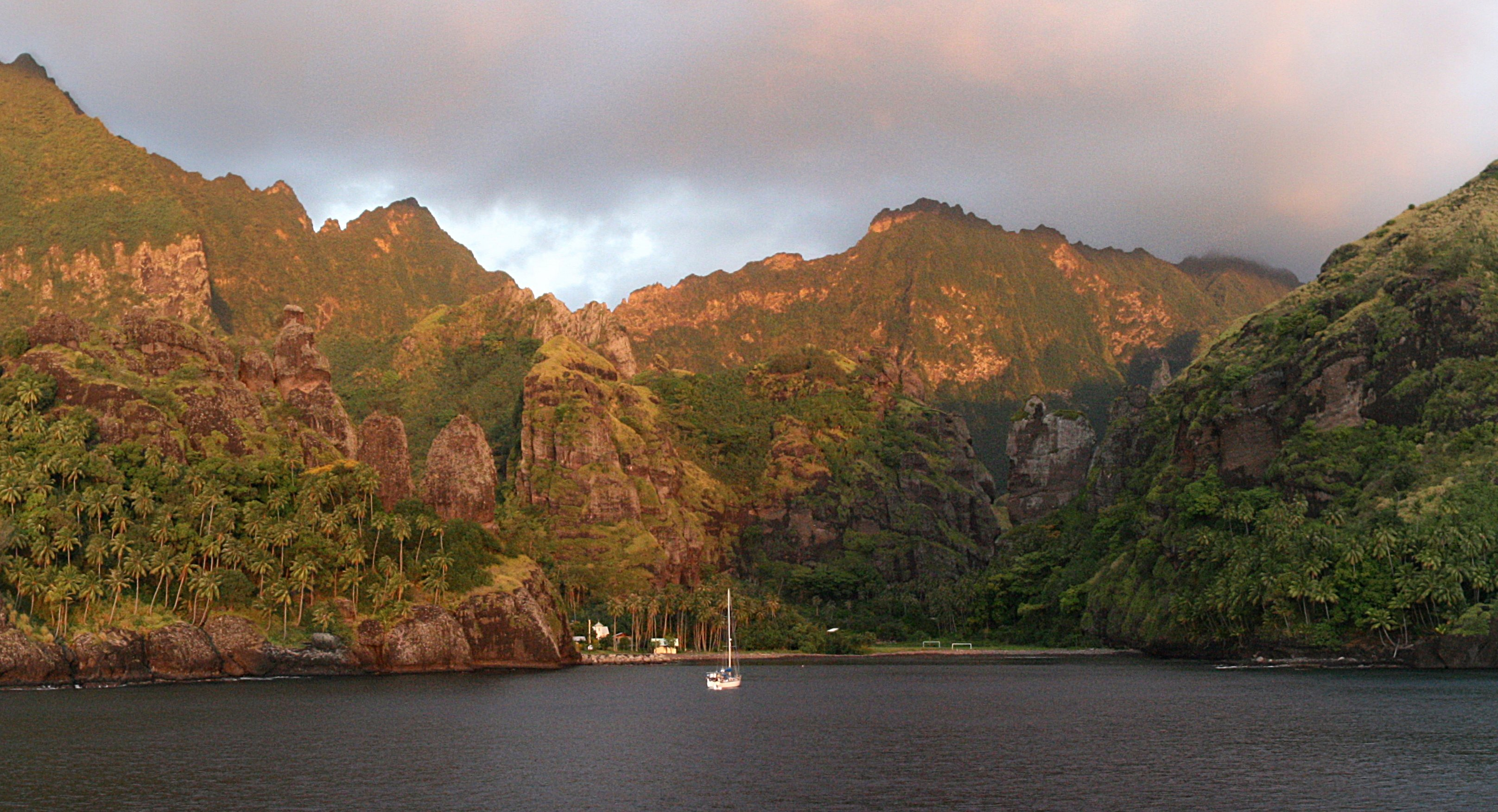 The Bay of Virgins at sunset, in Hanavave, island of Fatu Hiva, Marquesas islands, French Polynesia.